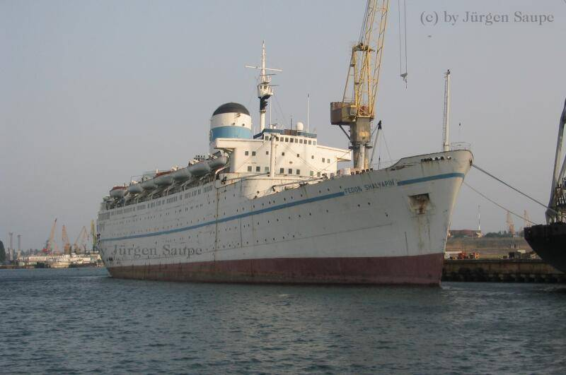 The cruise ship Fedor Shalyapin laid up at Illichivsk in 2003.